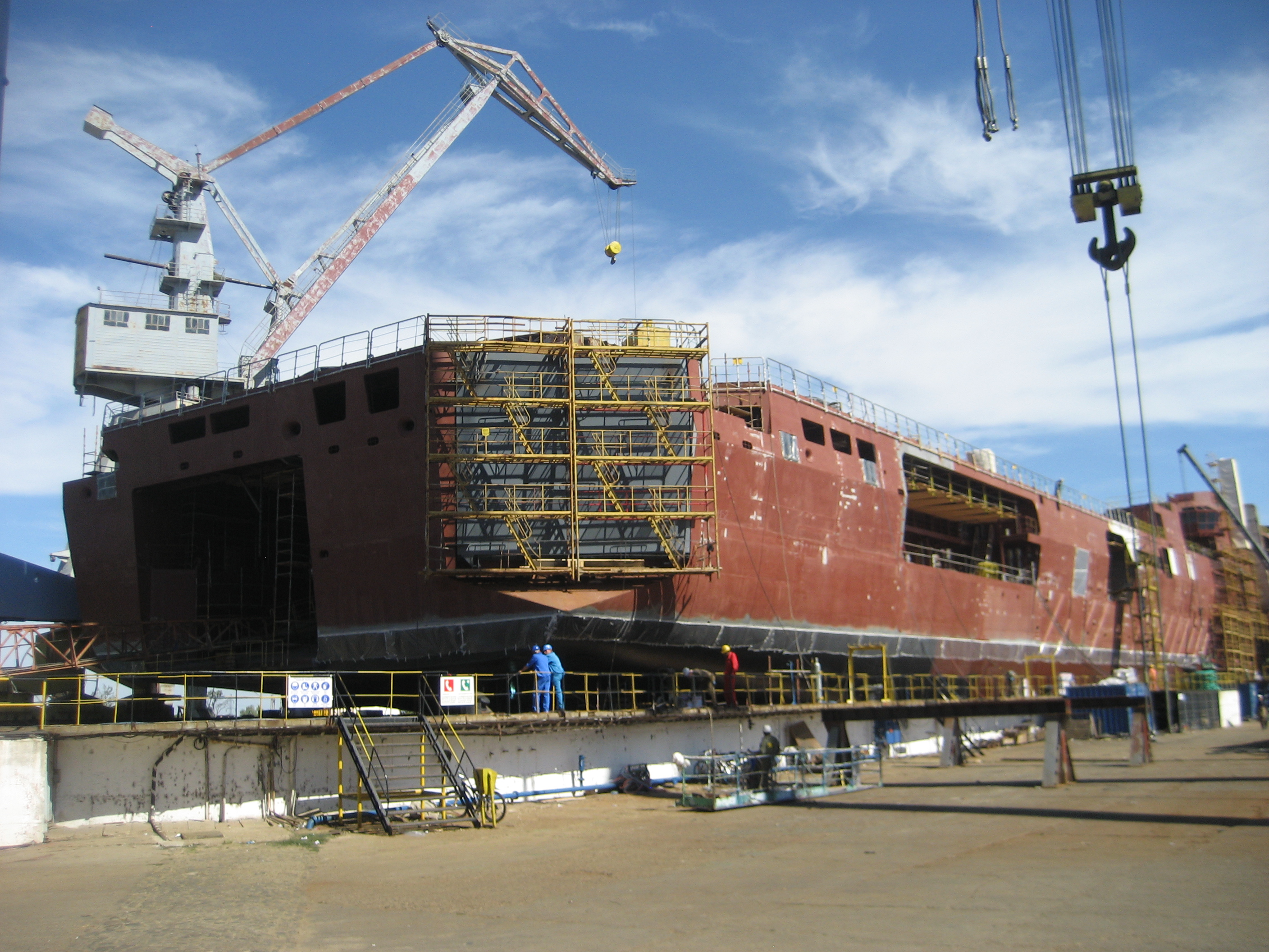 Starboard and aft side view of the Karel Doorman under Construction